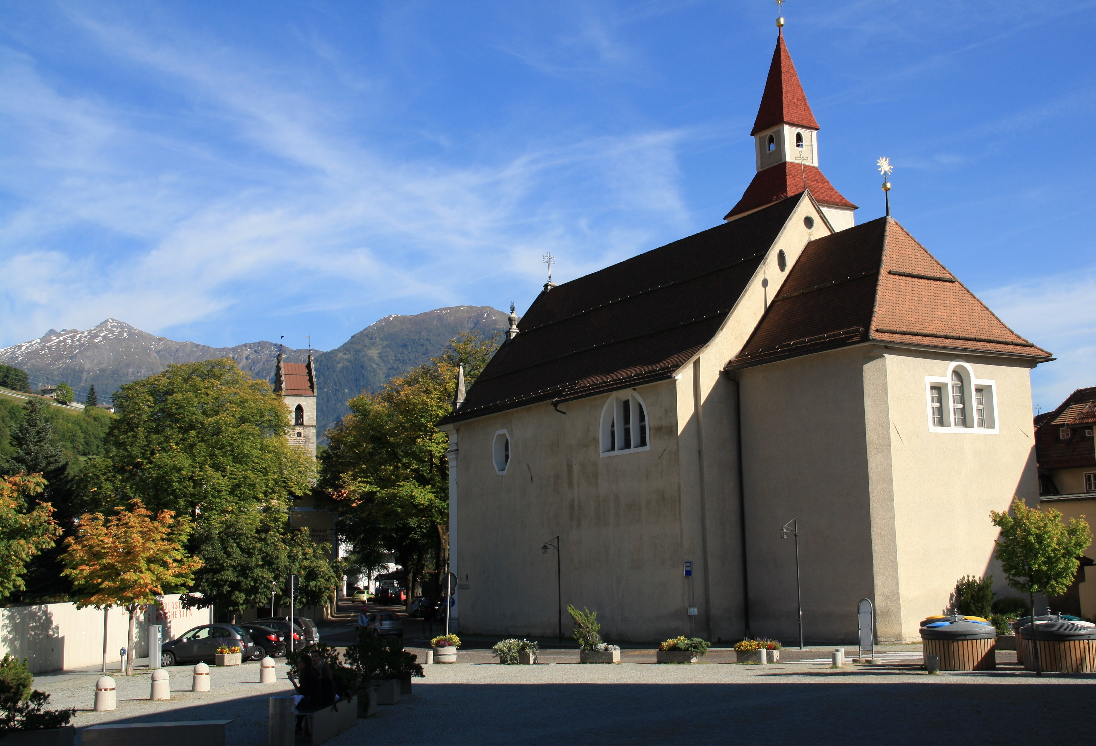 Italy, South Tyrol, Sterzing, St. Margarethenkirche. The present church was built on the initiative of the Bishop Paulinus Mayr in early Tyrolean baroque on project of Peter Delai in 1678. The old church, mentioned for the first time in 1337, was restored and enlarged between 1459 and 1463 in gothic. In 1678 was completely demolished, rebuilt and consecrated in 1681. The bell tower is detached from the church and it comes from the previous church, in 1624 the Romanic tower was demolished and built the present. The façade was inspired to renaissance with the characteristic Palladian tripartite windows. In the niches are placed the wooden sculptures of Saint Margaret and Saint Agnes and above the portal is a fresco showing the Last Supper. The imposing interior has one nave, large windows and a vaulted ceiling with lunettes. The great high altar has six columns and an altarpiece representing the Coronation of Mary painted by Joseph Renzler in 1822, beside are two wood-carving of the Saints Francis Xavier and John of Nepomuk. Above the altar on the right is placed a statue of the Madonna with Child of 17th century bordered by the Rosary formed by fifteen painted discs.